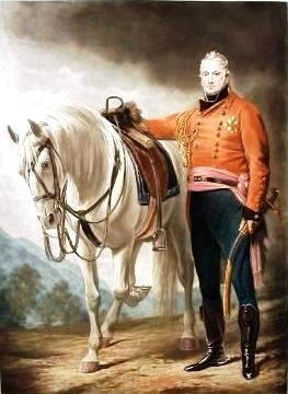 John Hope (1765 - 1823), the fourth Earl of Hopetoun, was a military man, attaining the rank of general, who served in the Napoleonic Wars, mostly in the Mediterranean and the Peninsular Campaign. He was quite a brave man and was highly commended by Wellington, who said, " he was the ablest man in the Peninsular army."